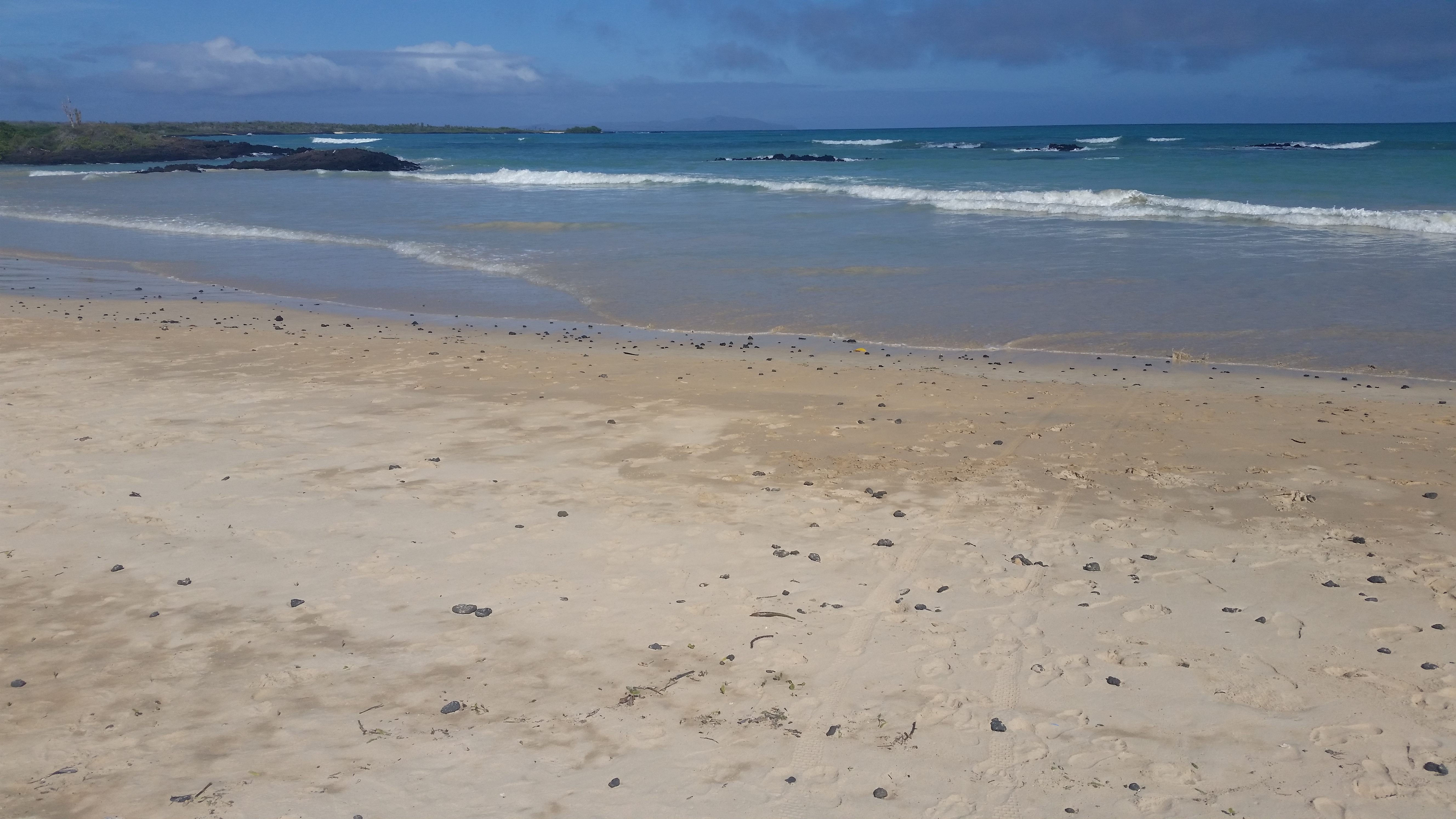 Isla Santa Fe as seen from Playa el Garrapatero, Isla Santa Cruz, Galapagos Islands